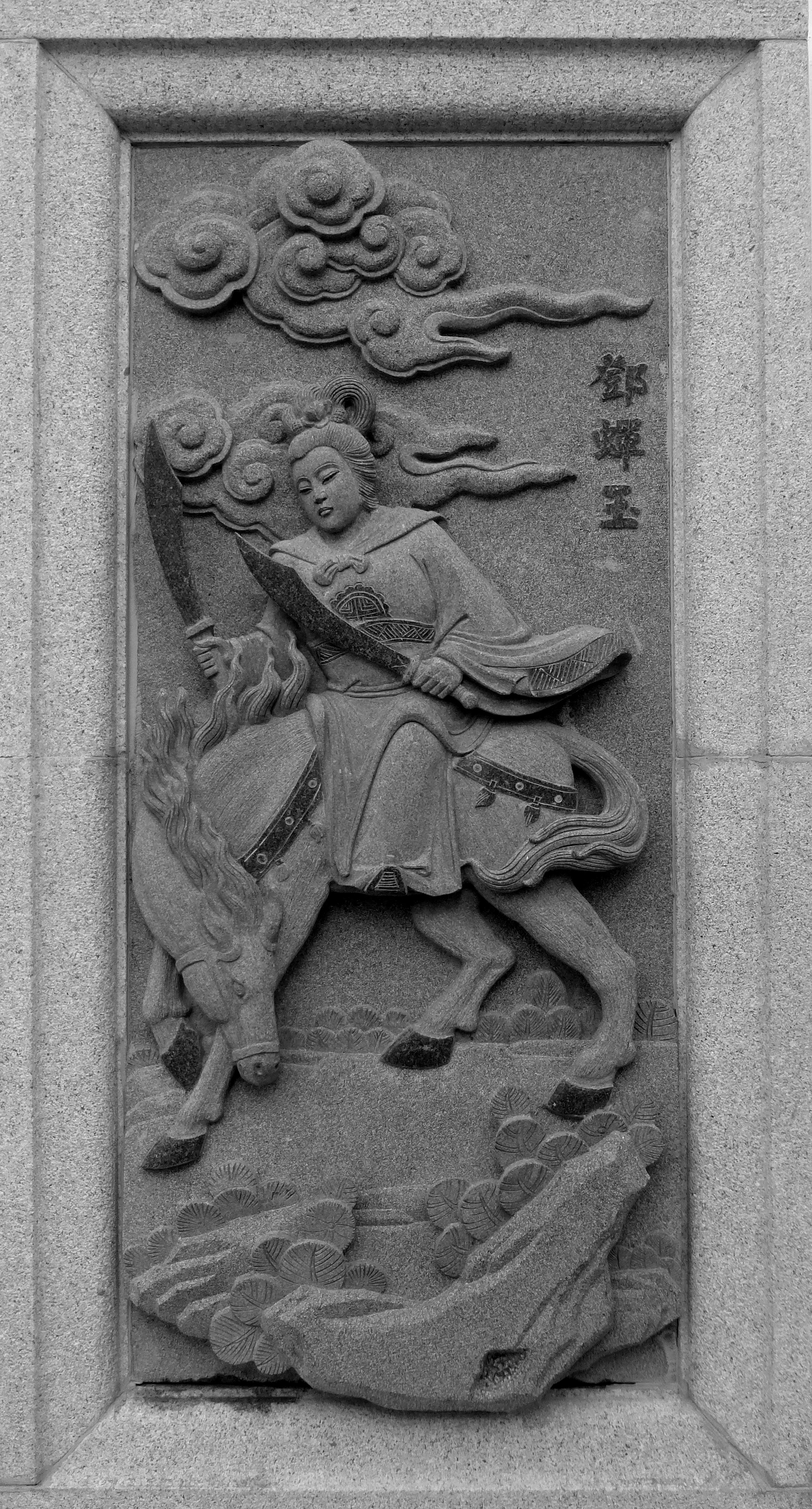 079 Deng Chan Yu, Investiture of the Gods at Ping Sien Si, Pasir Panjang, Perak, Malaysia Photograph from the Ping Sien Si Temple in Perak, Malaysia taken by Anandajoti.